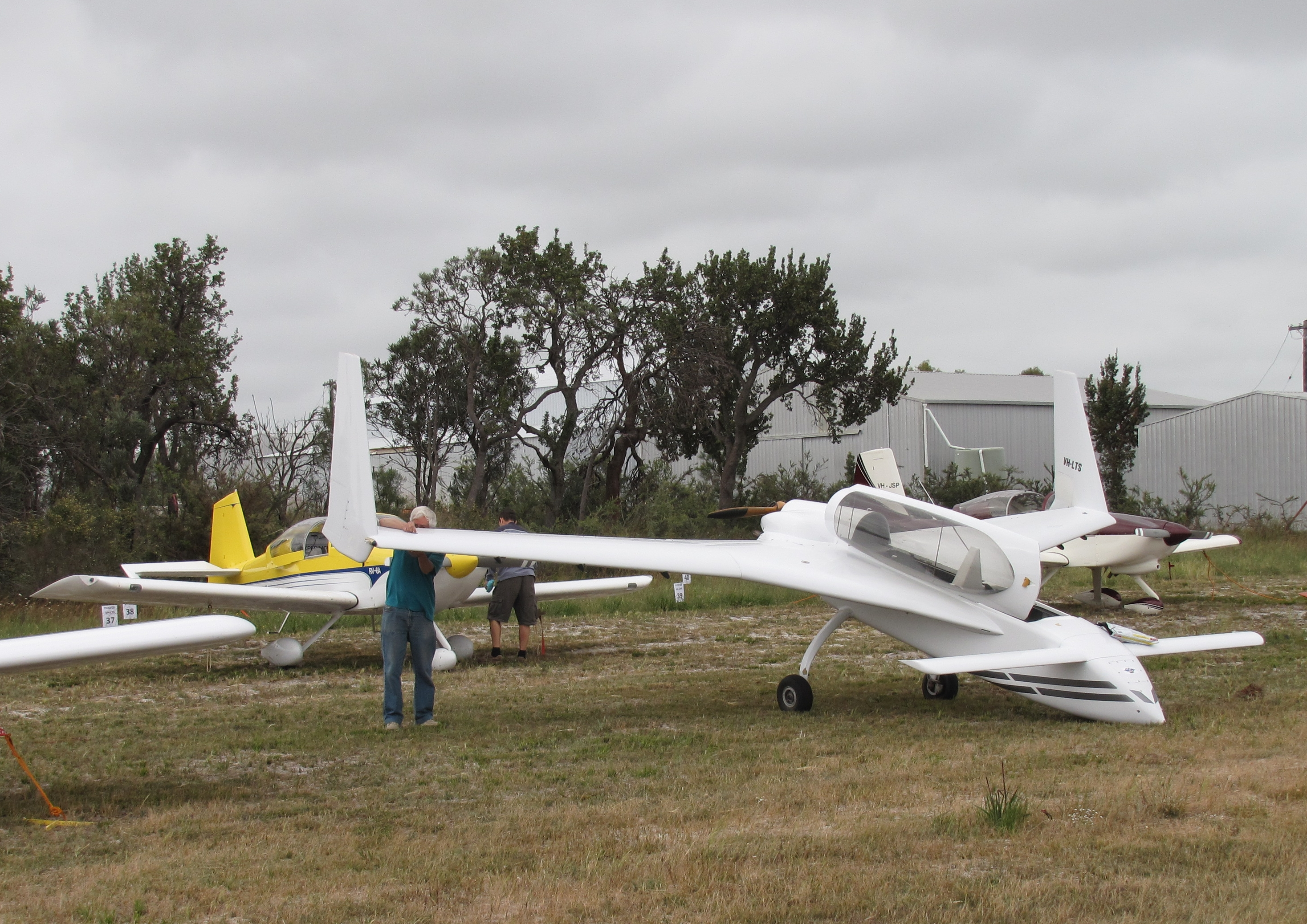 Rutan 61 Long-EZ at Serpentine Airfield in October 2011.